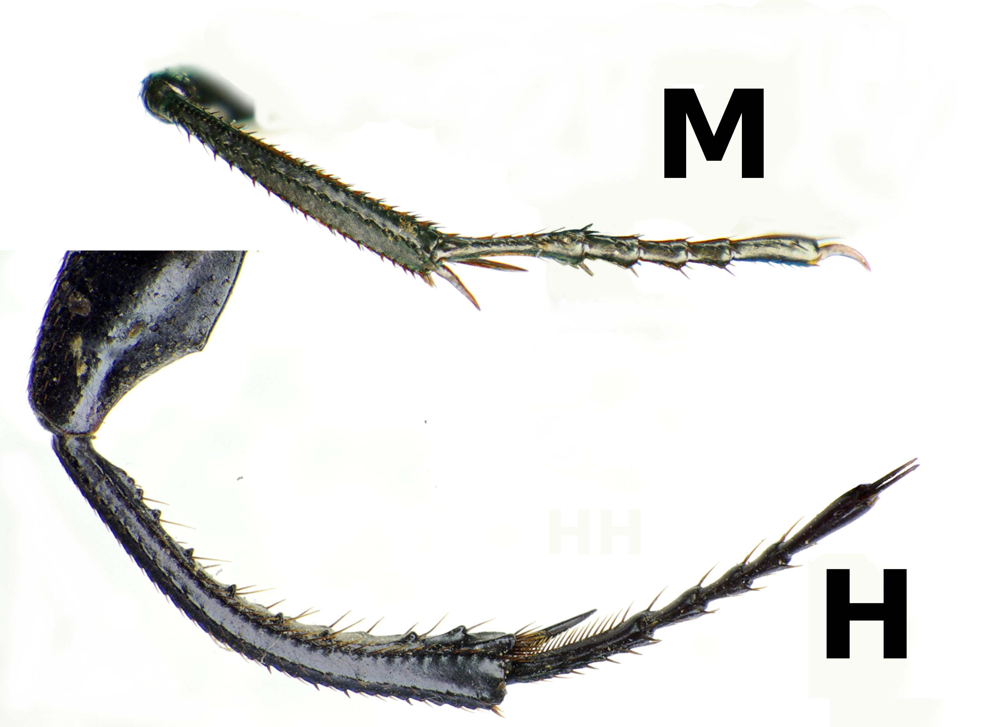 Tibia and Tarsus of middle leg (M) and hind leg (H) from Sisyphus schaefferi M from side and H from upside